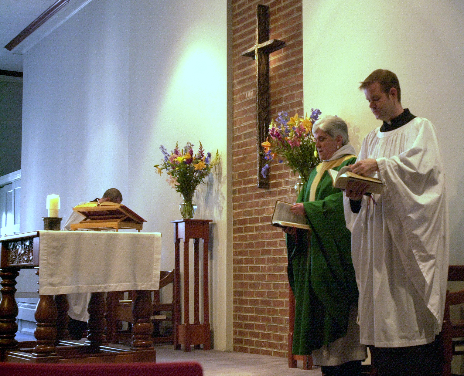 Reverend Elizabeth Carl participating in a service at St. Thomas' Parish, an Episcopal church located in the Dupont Circle neighborhood of Washington, D.C.